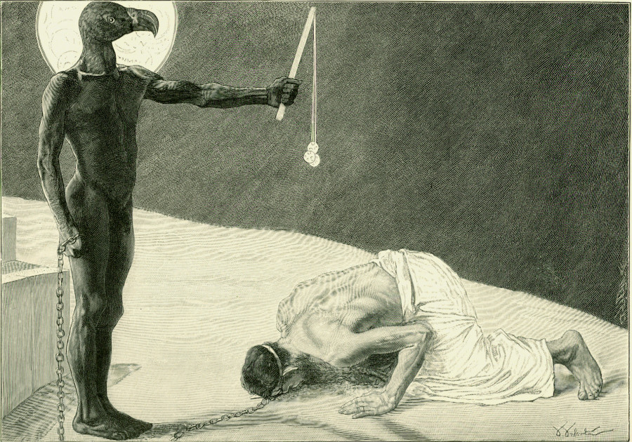 "Mammon and His Slave", wood engraving, published by Johann Jacob Weber, Leipzig, 9.44 x 12.59 in.